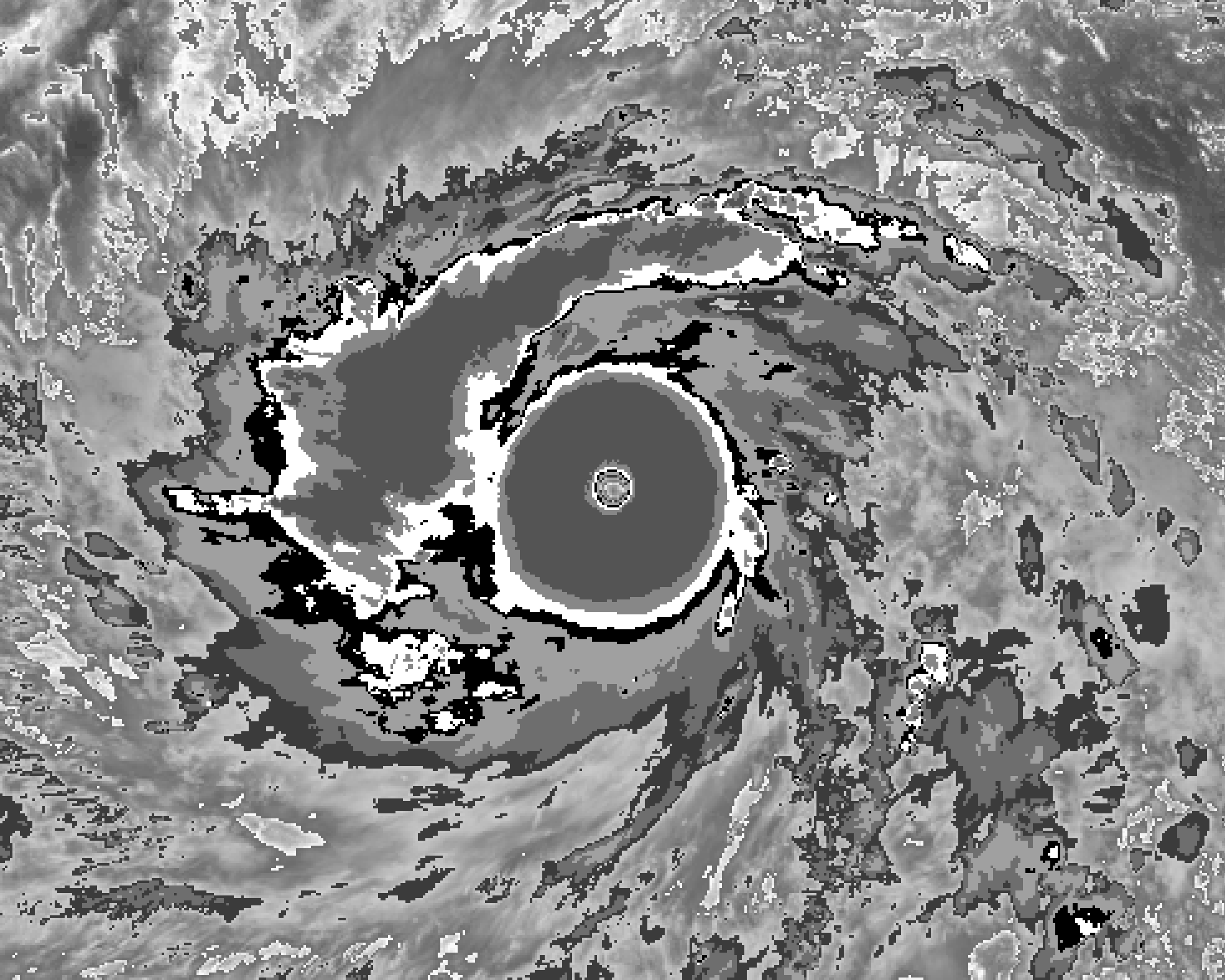 This MTSAT-1R satellite infrared imagery with the Dvorak enhancement reveals Typhoon Haiyan at T8.0 of the Dvorak technique at 14:30 UTC on November 7, 2013. “DT is discounted because [the] Dvorak technique makes no allowance for an eye embedded so deeply in cloud tops as cold as CDG.”